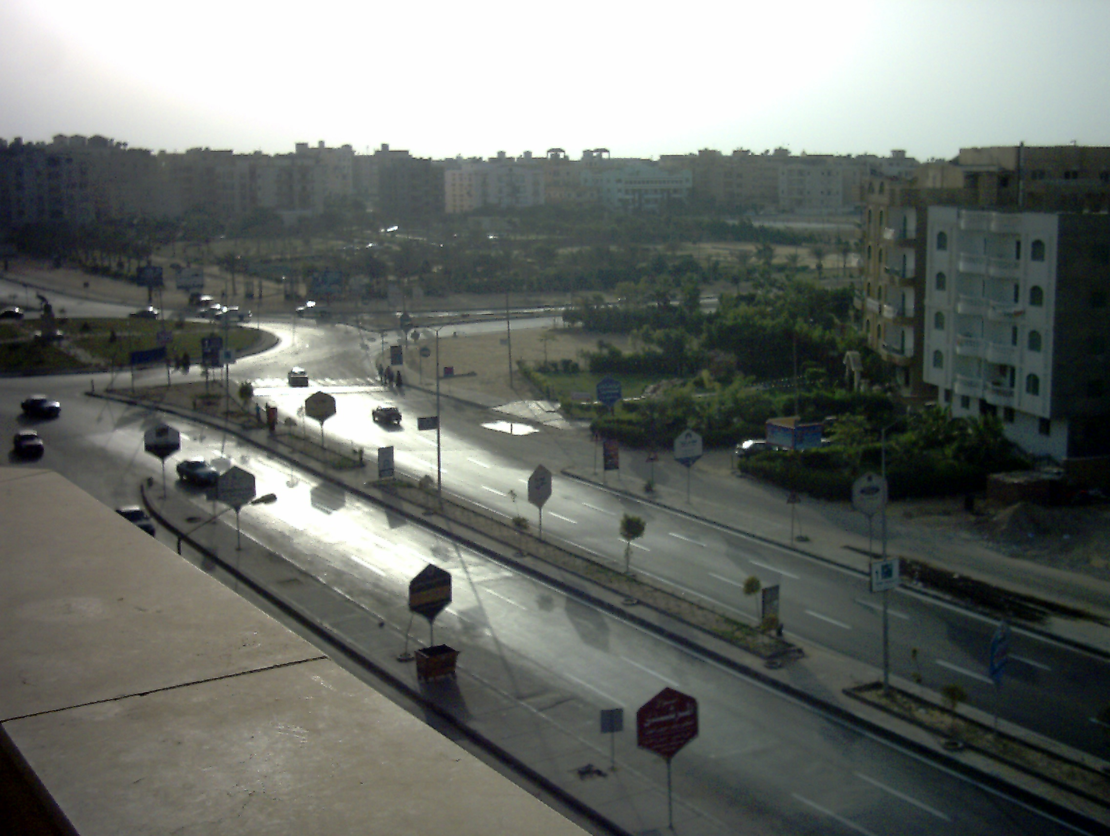 6 October City , Egypt